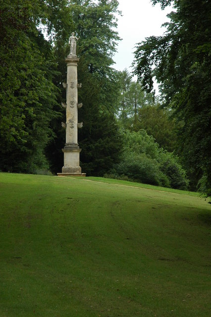 Captain Grenville's Column, Stowe Landscape Gardens. The column is a memorial to Captain Thomas Grenville, who died of his wounds at the Battle of Cape Finisterre on 3 May 1747. The memorial was raised by his uncle, Richard Temple, 1st Viscount Cobham.